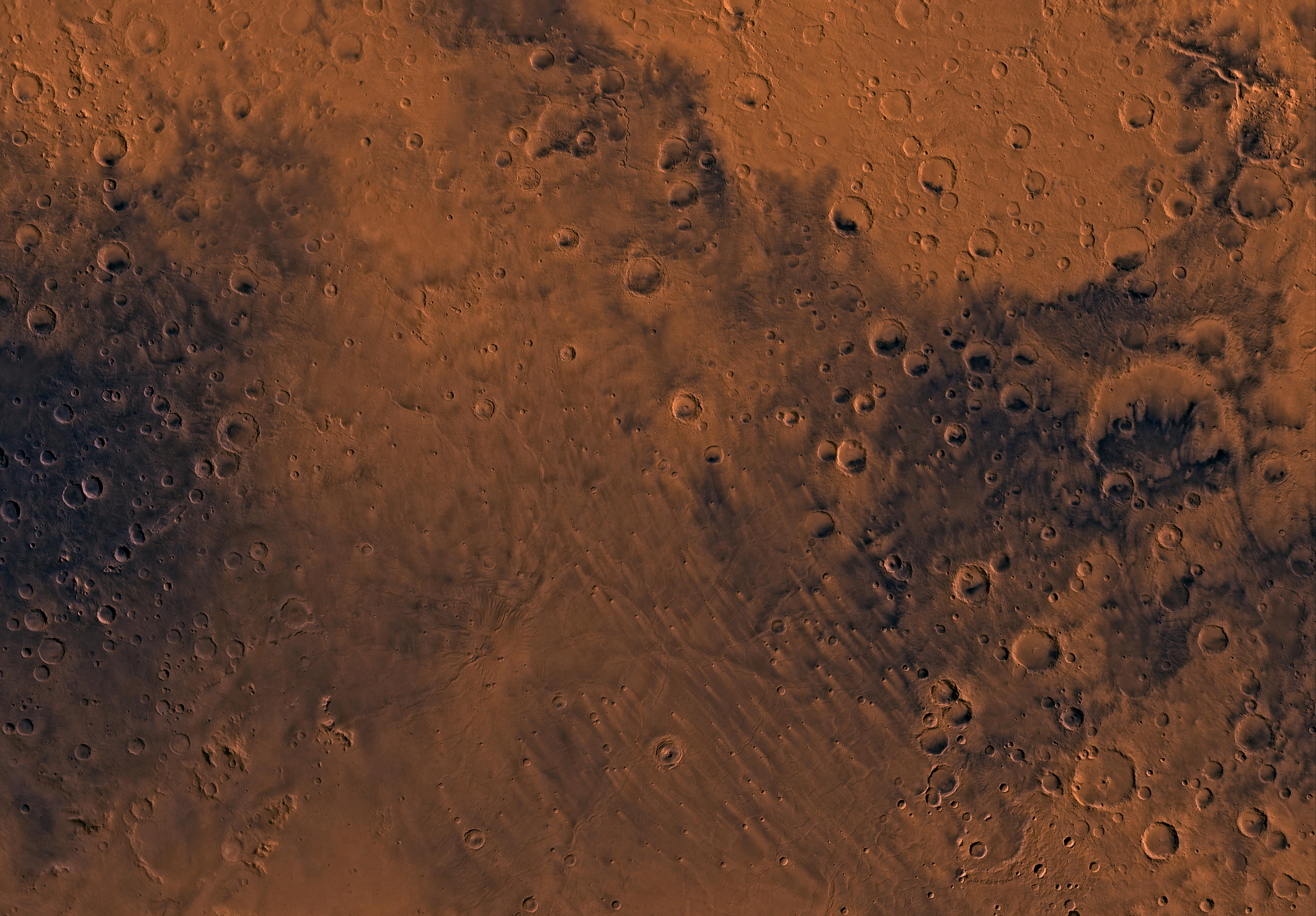 PIA00182: MC-22 Mare Tyrrhenum Region Mars digital-image mosaic merged with color of the MC-22 quadrangle, Mare Tyrrhenum region of Mars. Heavily cratered highlands dominate the Mare Tyrrhenum quadrangle. The central part is marked by a large shield volcano, Tyrrhena Patera, and associated ridged plains of Hesperia Planum that probably are made up of basaltic lava flows. Latitude range -30 to 0 degrees, longitude range -135 to -90 degrees.